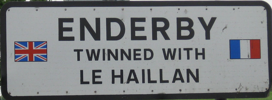 Road sign at Enderby